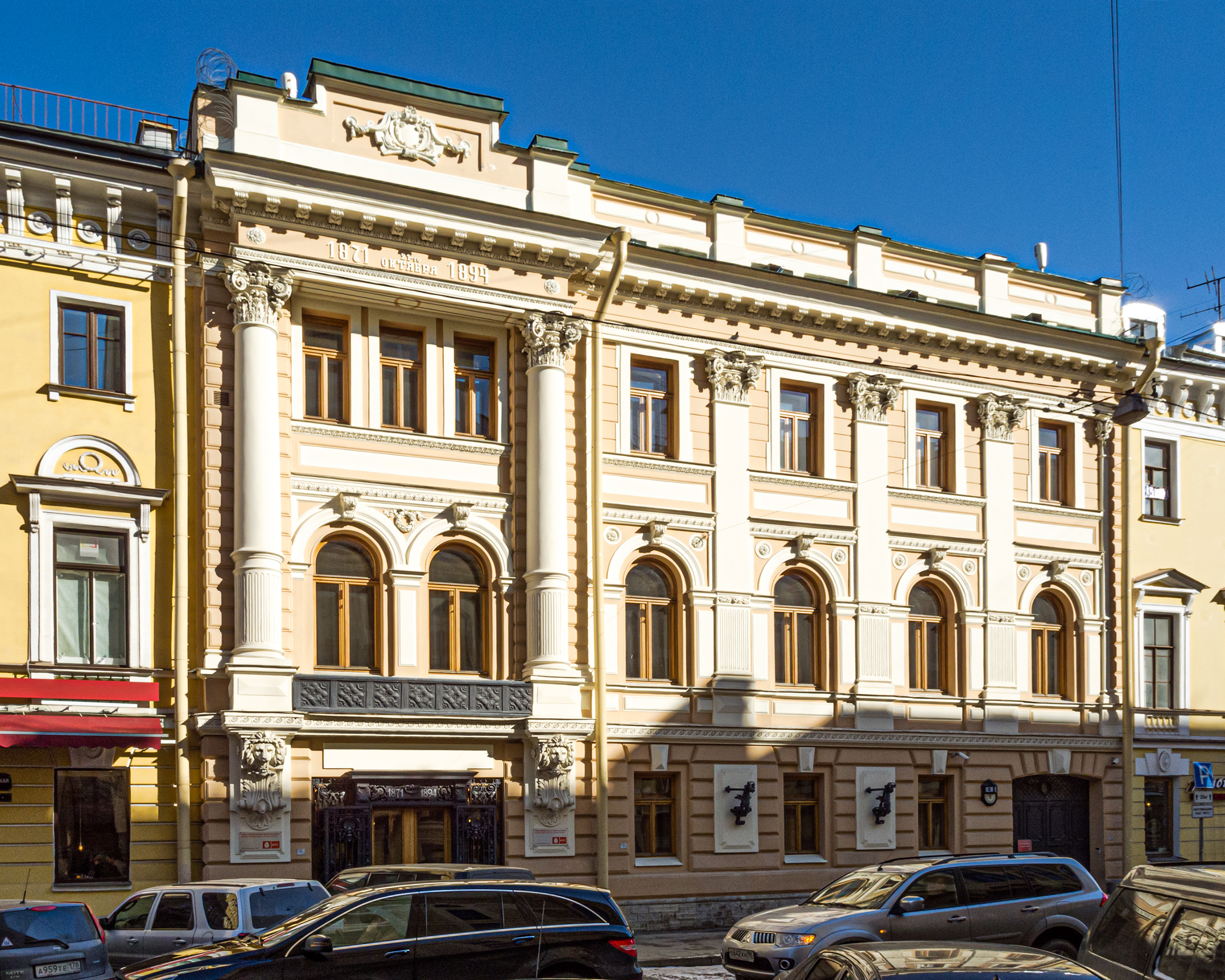 8, Italianskaya Street in Saint Petersburg.